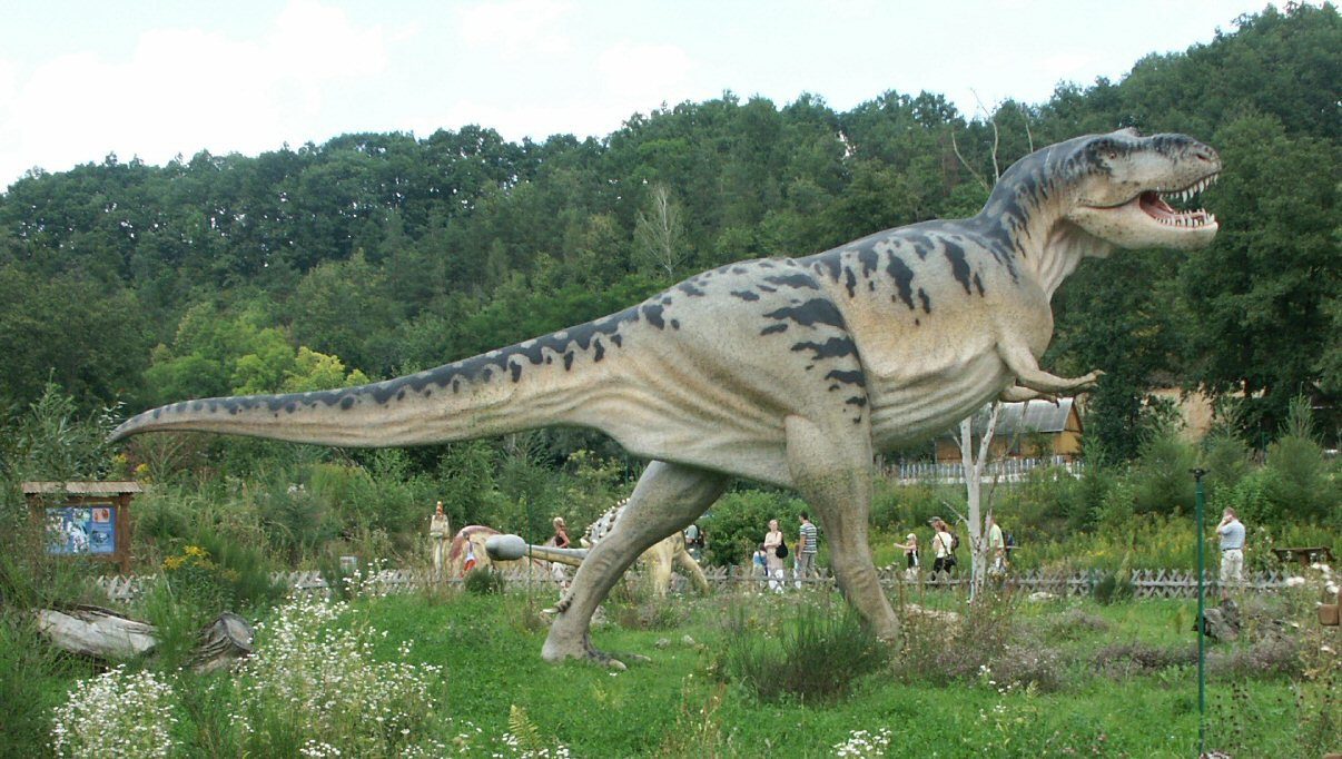 Tyrannosaurus Rex model in Bałtów Jurassic Park, Poland